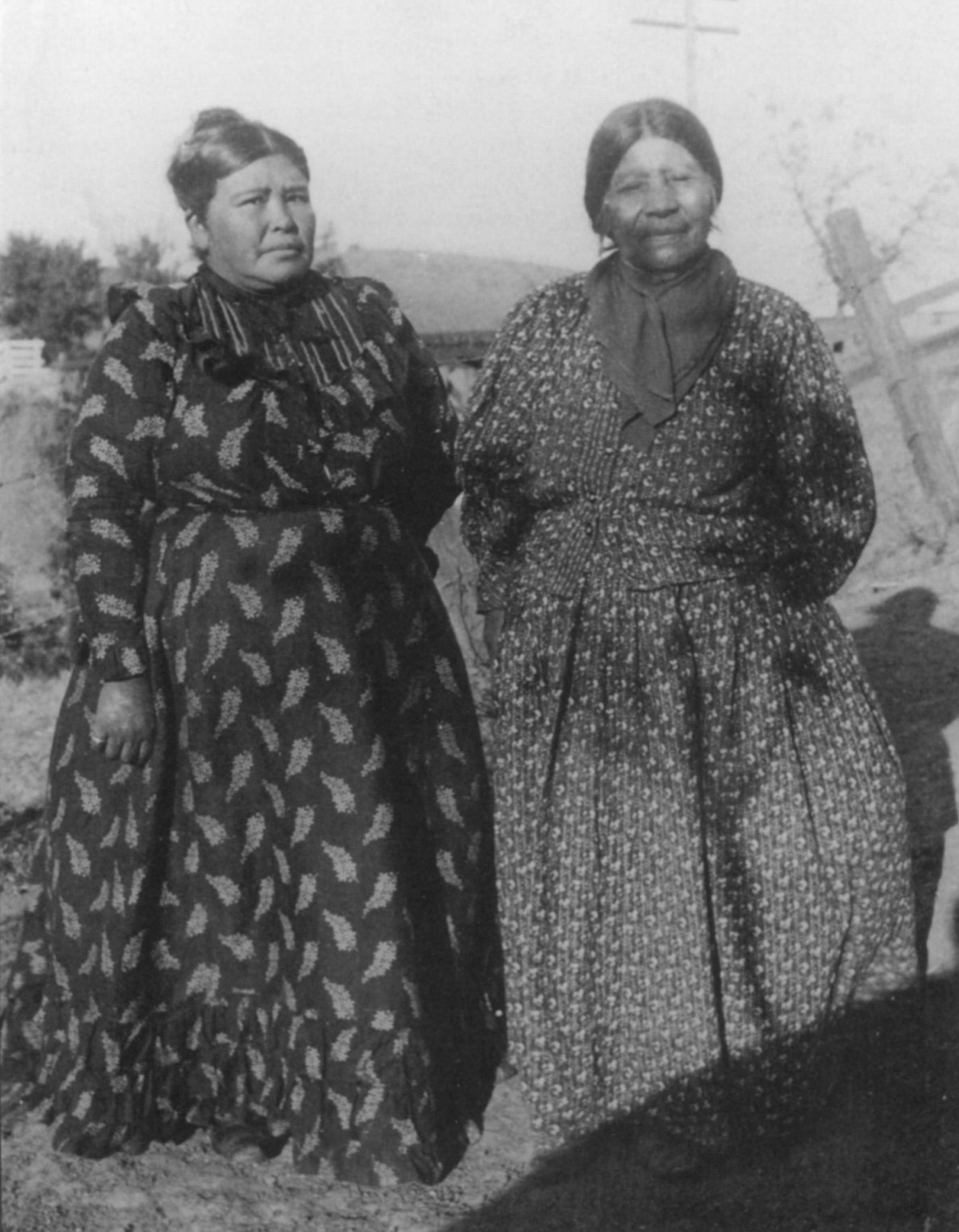 Ohlone elders at Alisal Rancheria (now Pleasanton California) From left to right: Maria Reyes and mother É-non-nat-too-yá (Paula)